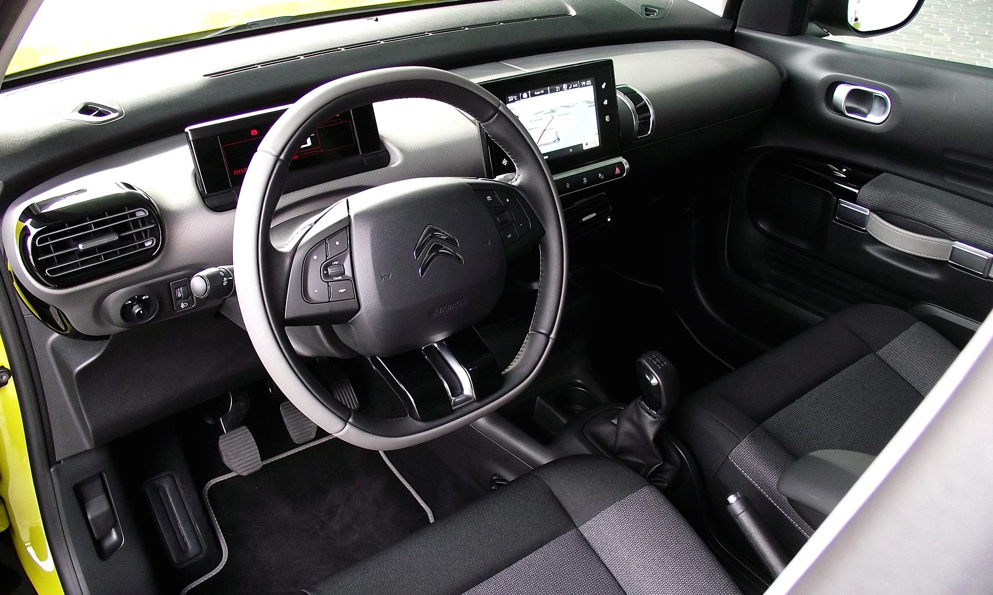 2014 Citroën C4 Cactus Feel Edition PureTech e-THP 110 Interior